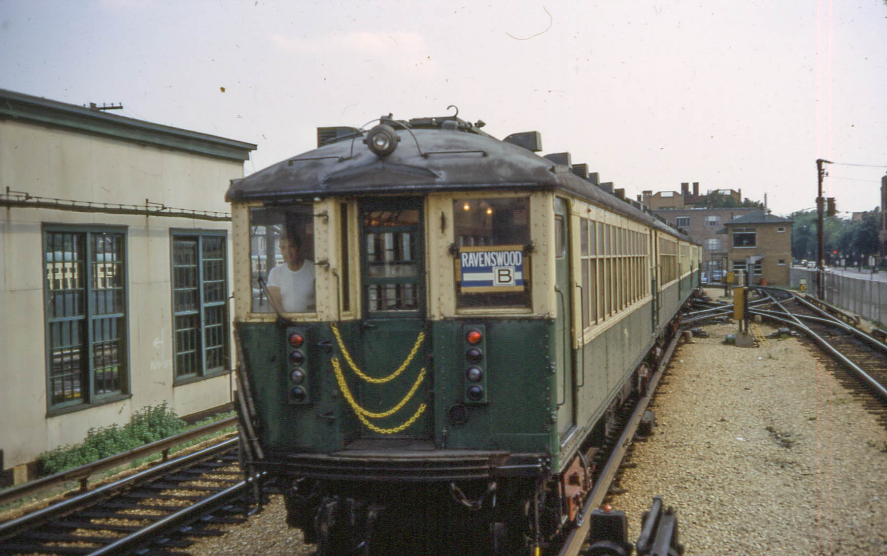 19670614 12 CTA Ravenswood L @ Kimball Ave